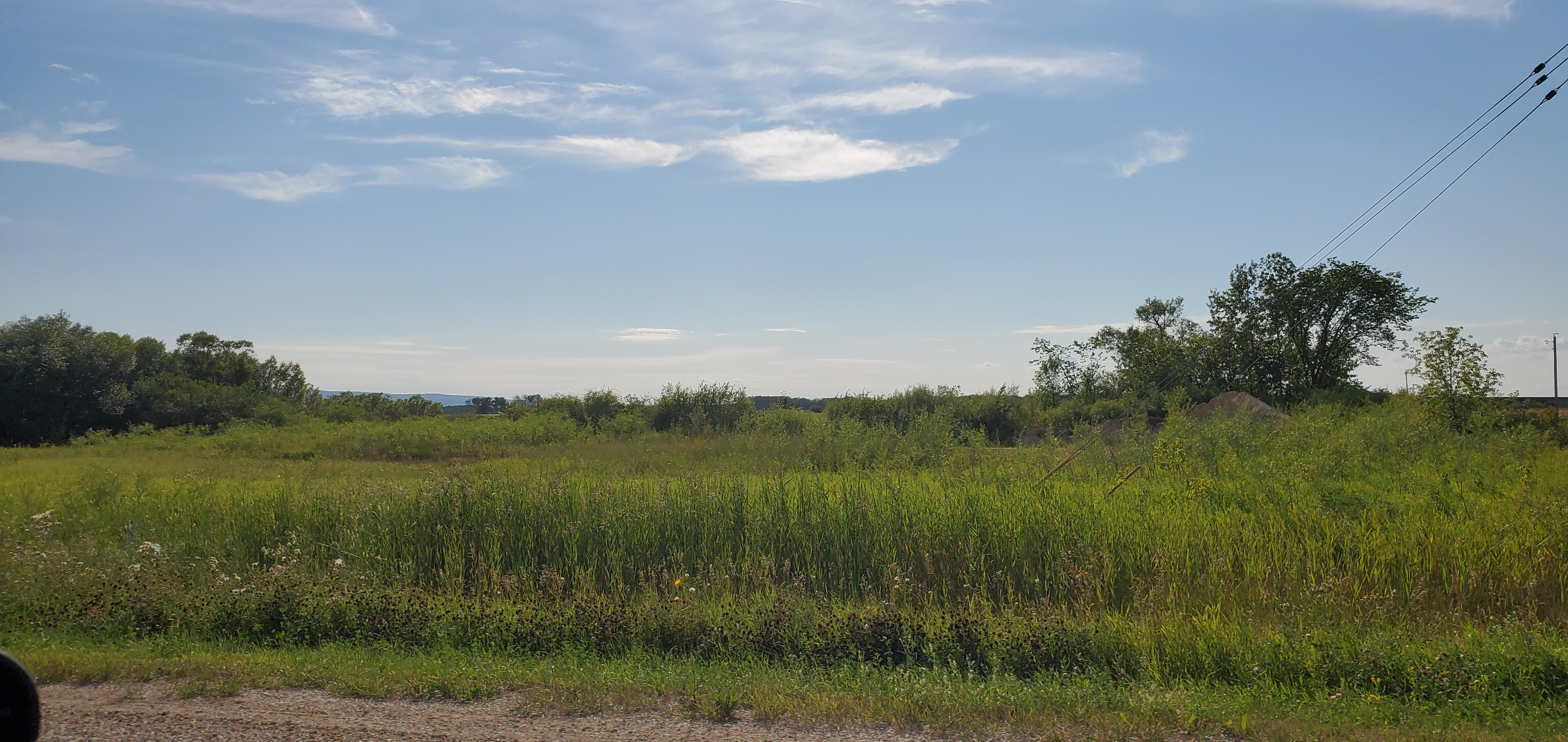 Ochre River, Manitoba